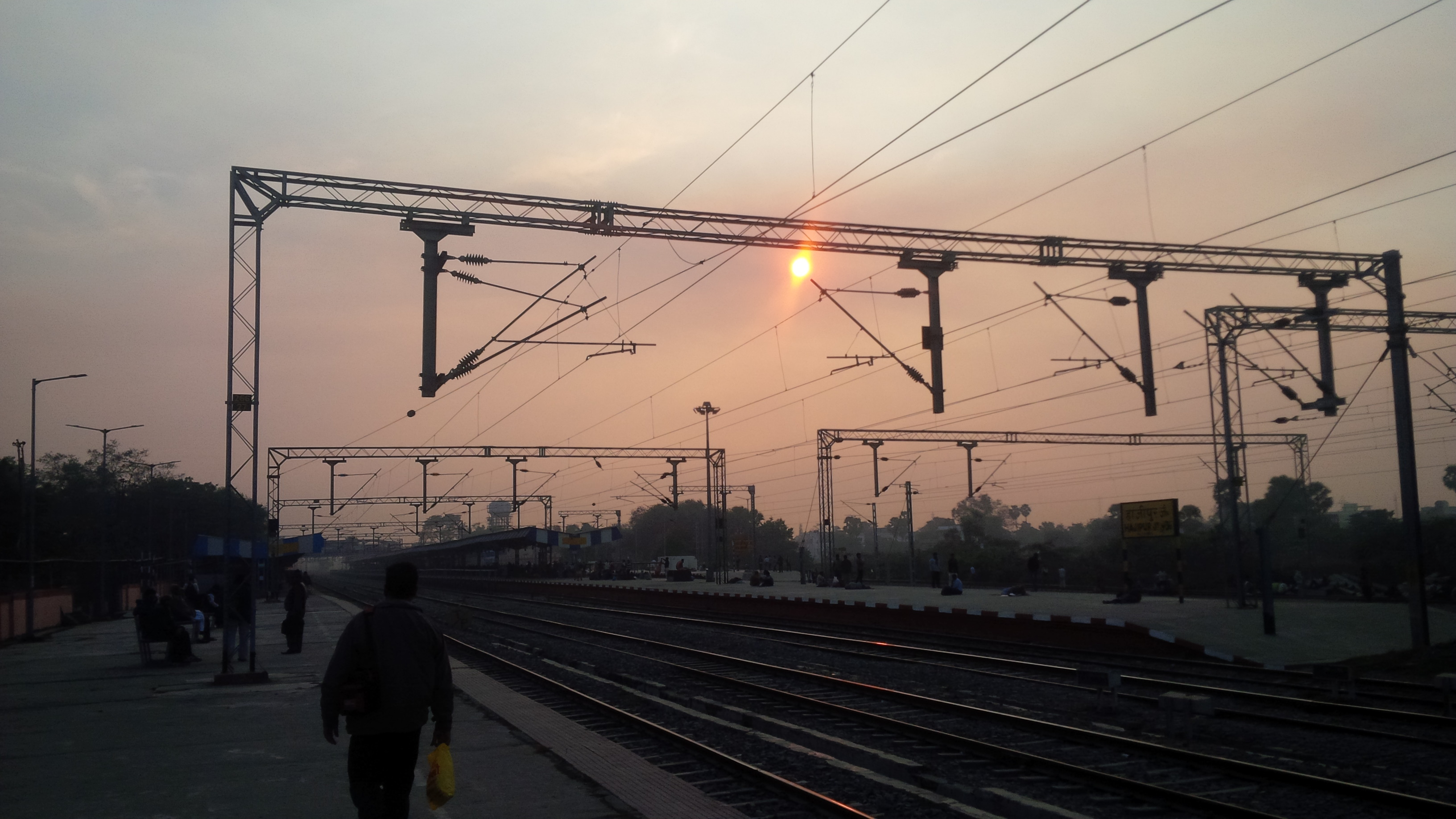 Evening Picture of Hajipur Junction.